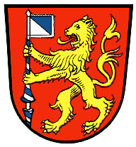 Coat of arms of Ronsberg